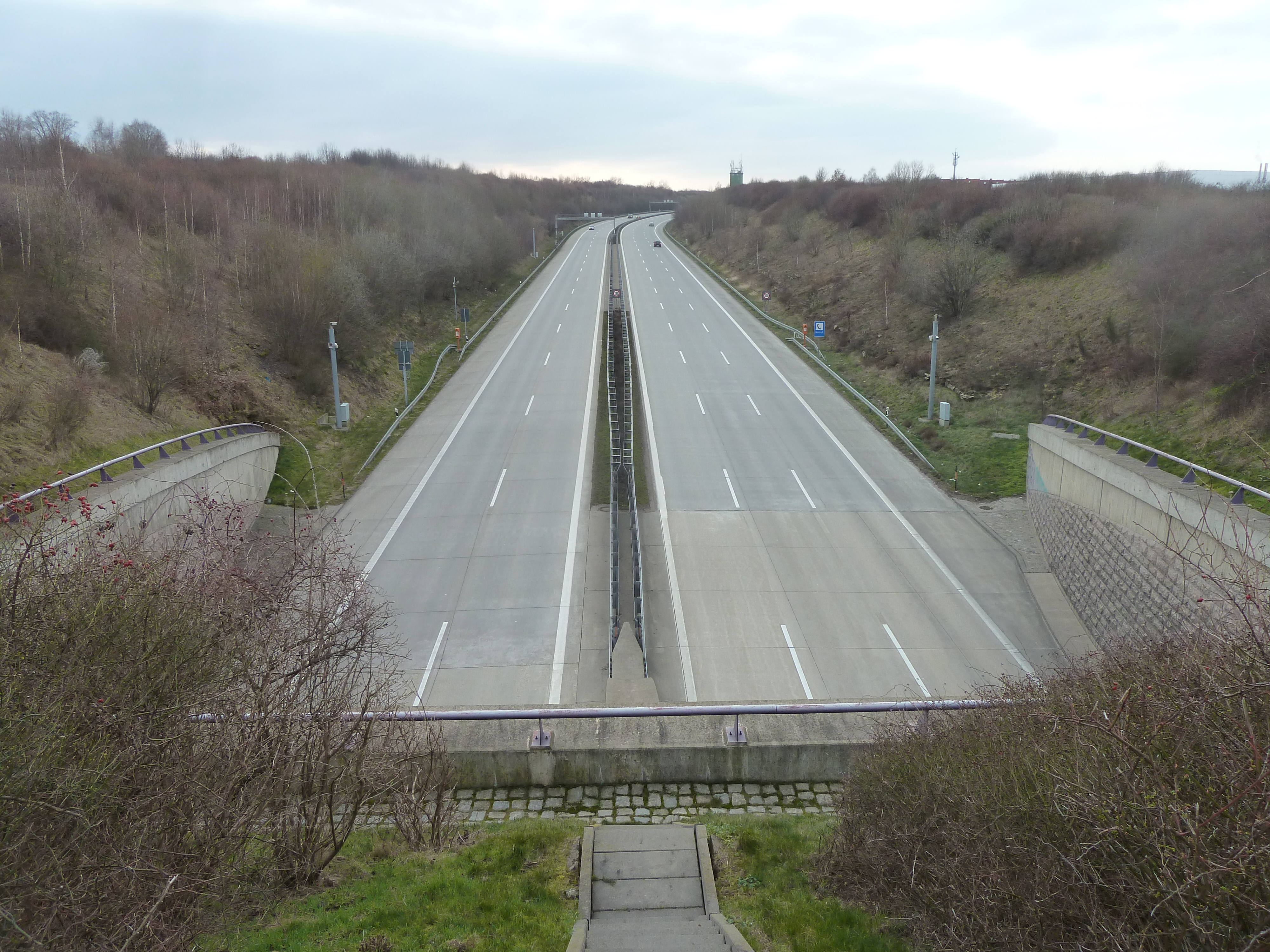 Bundesautobahn 17 from above the western portal of the Altfranken Tunnel